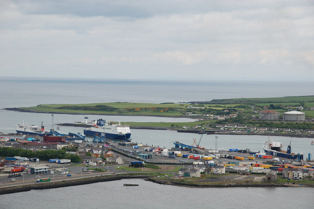 Larne harbour seen from above Inver. Showing the Fleetwood (left), Cairnryan (centre) and Troon (right) ferries. The Mull of Kintyre is just visible on the horizon to the left and, on the other side of Larne Lough, is Islandmagee.